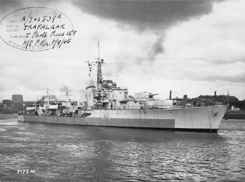 British destroyer HMS TRAFALGAR underway on the Tyne.